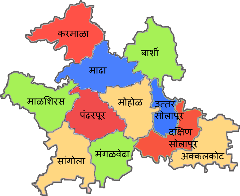 Marathi language tehsil map of Solapur district in the Indian state of Maharashtra. Created using this official map on Solapur district website